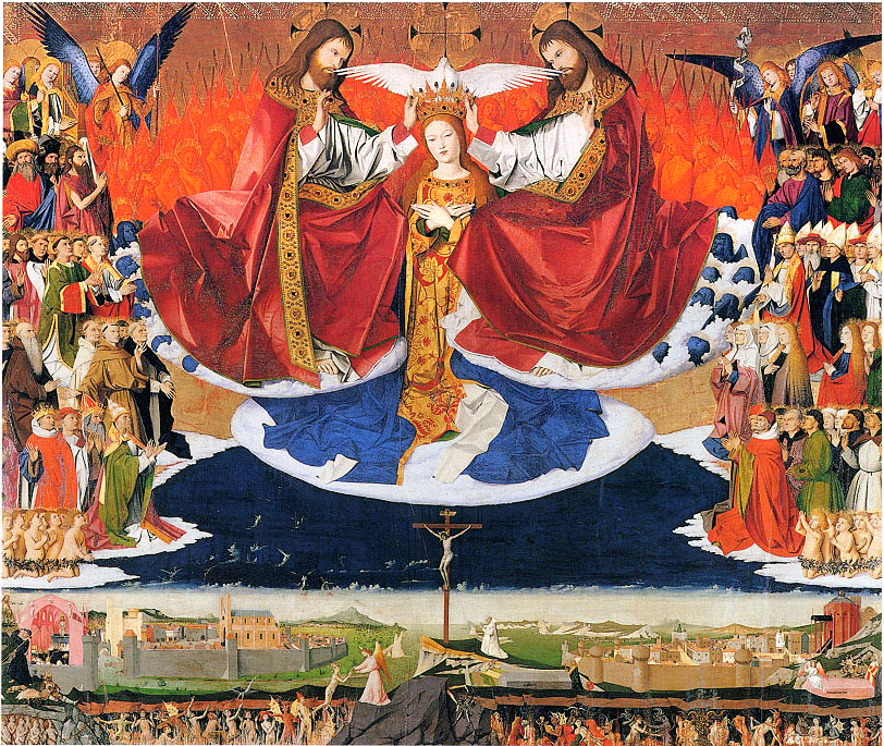 In this painting, Mary is crowned by the Holy Trinity. Unusually, God the Father and Jesus are shown as identical or with the same form.